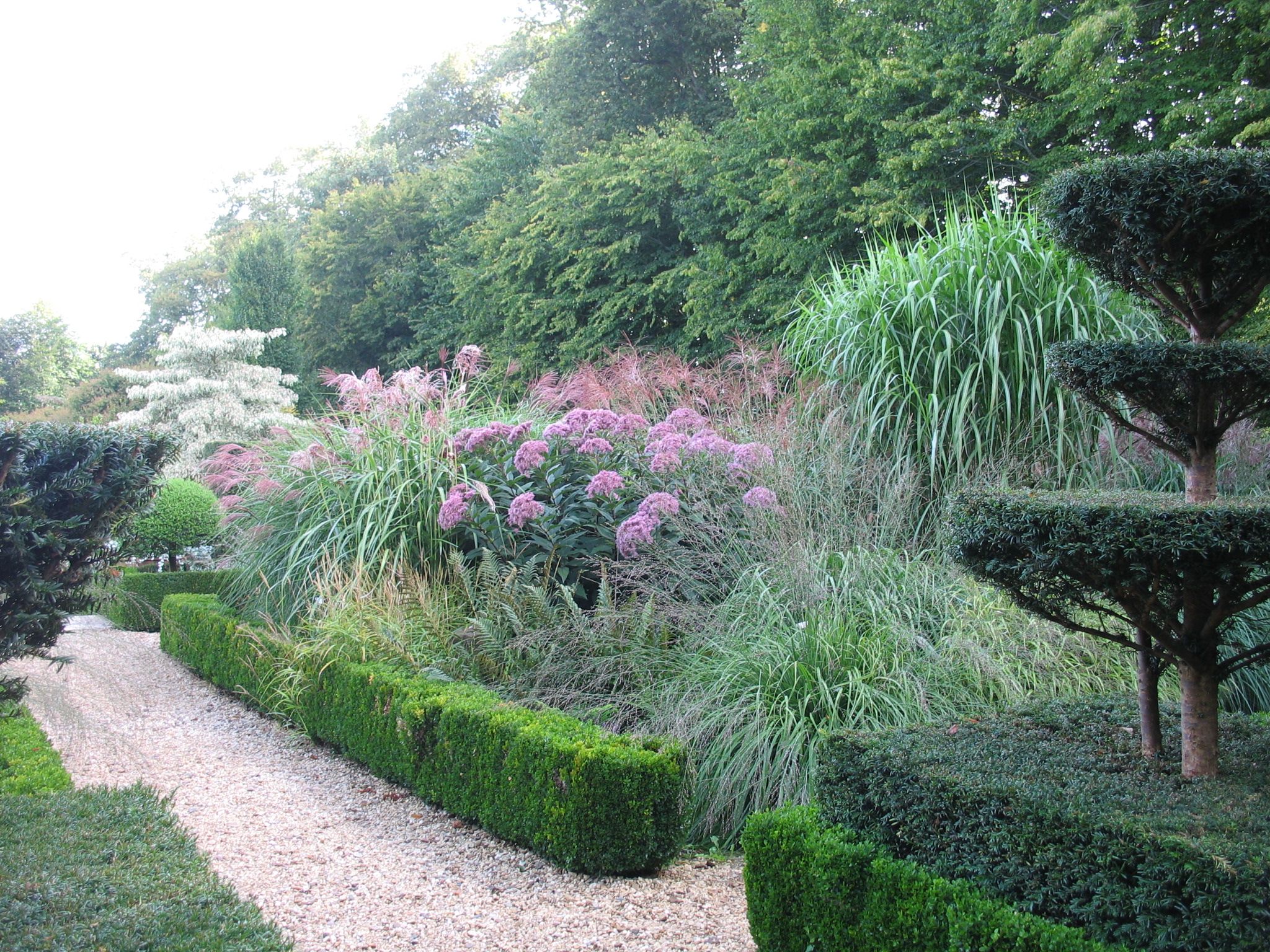 Plantbessin - Castillon